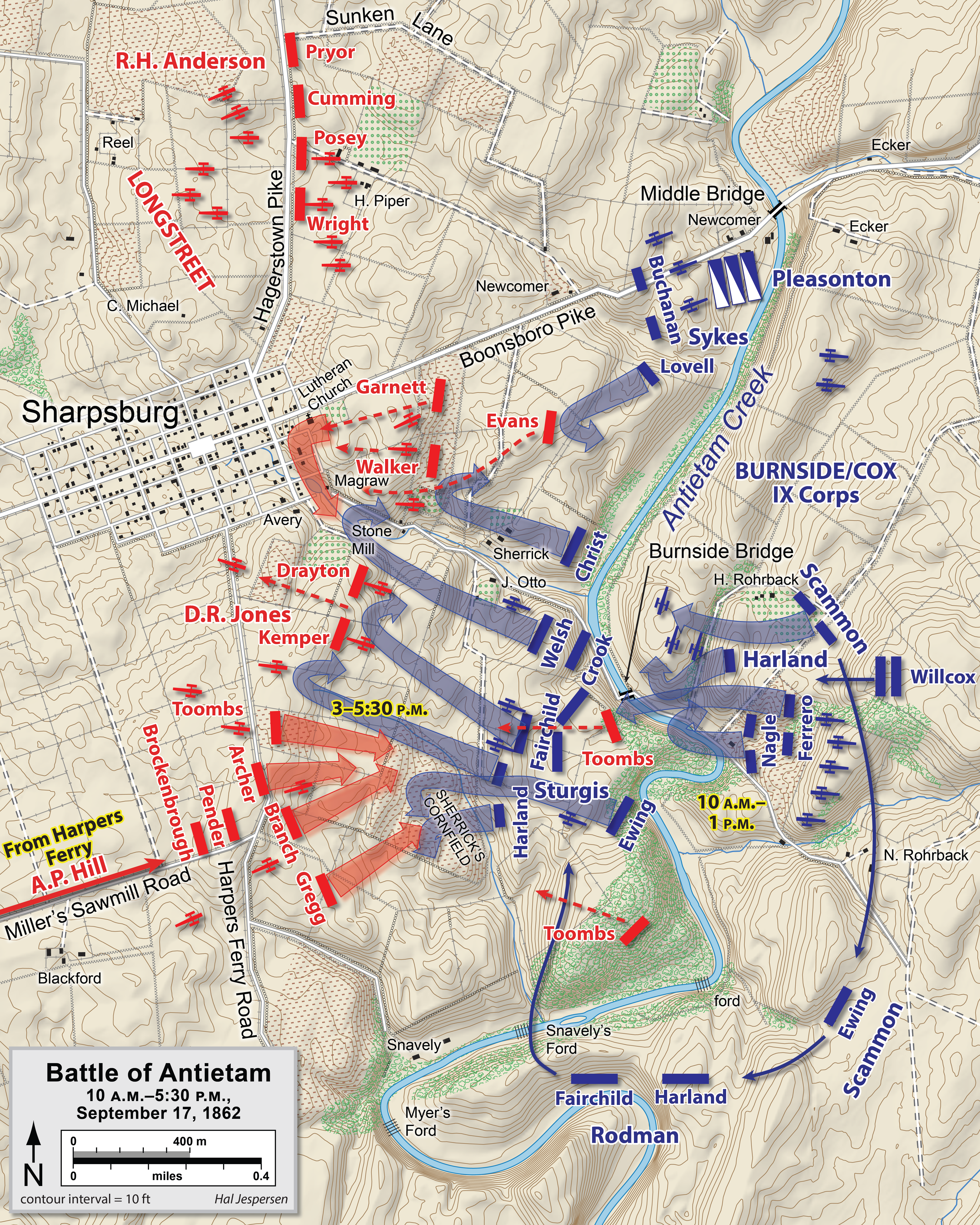 Map of the Battle of Antietam of the American Civil War. Drawn in Adobe Illustrator CS5 by Hal Jespersen. Graphic source file is available at